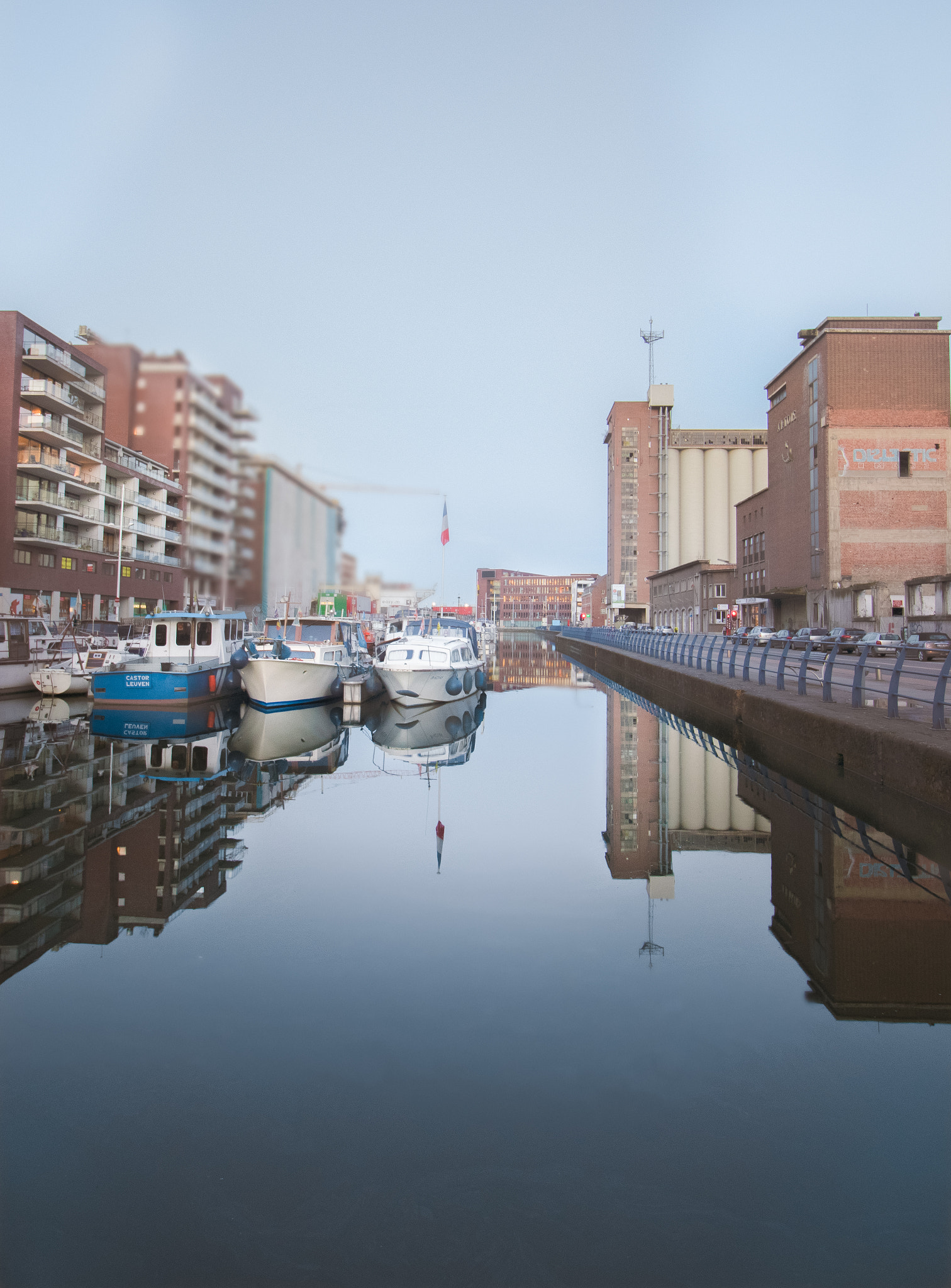 500px provided description: badly exposed, shame on me [#water ,#reflection ,#blue ,#boats ,#canal]